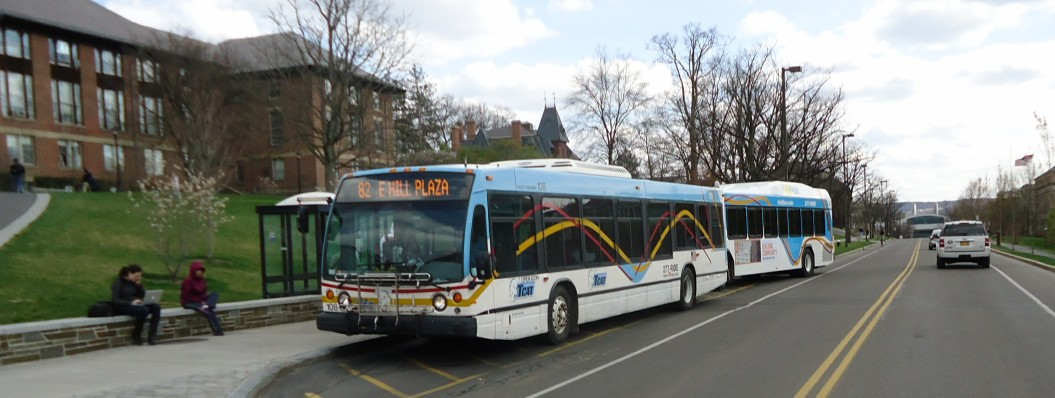 Buses link different sections of campus, as well as travel to and from the town of Ithaca, which is at the bottom of the ridges surrounding Lake Cayuga. A photo from a campus visit to Cornell on April 9, 2012 (actual date of photo).